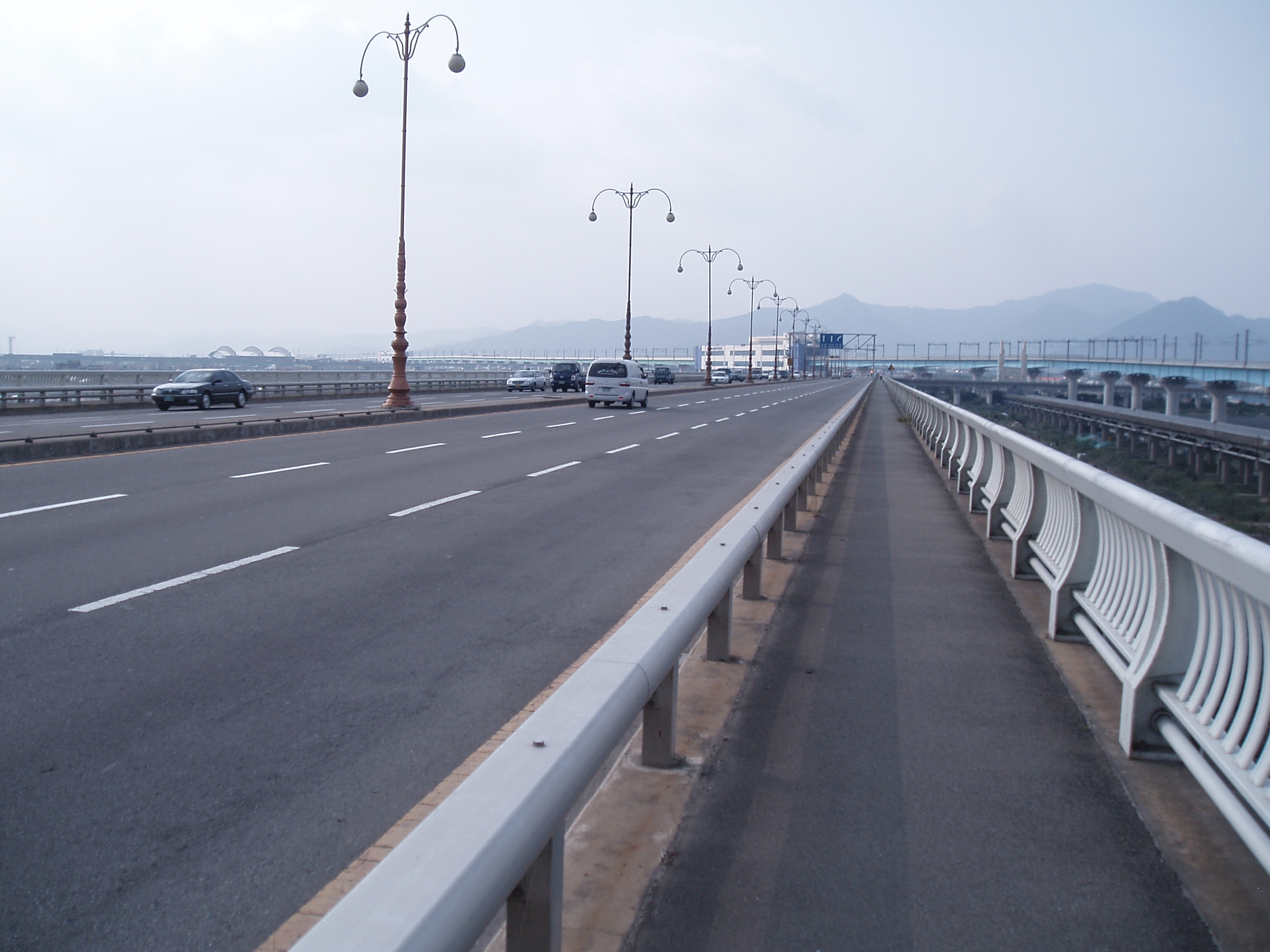 Gupo Bridge in Busan Nakdong river upper south view